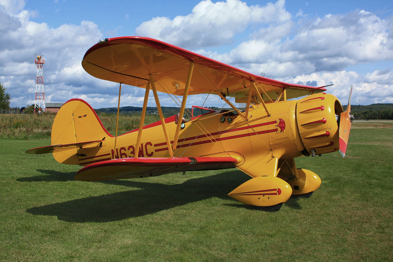 Waco biplane, Bar Harbor airport, Maine, USA. A 1997 model YMF-5C by WACO Classic Aircraft with registration number N63WC (archive).